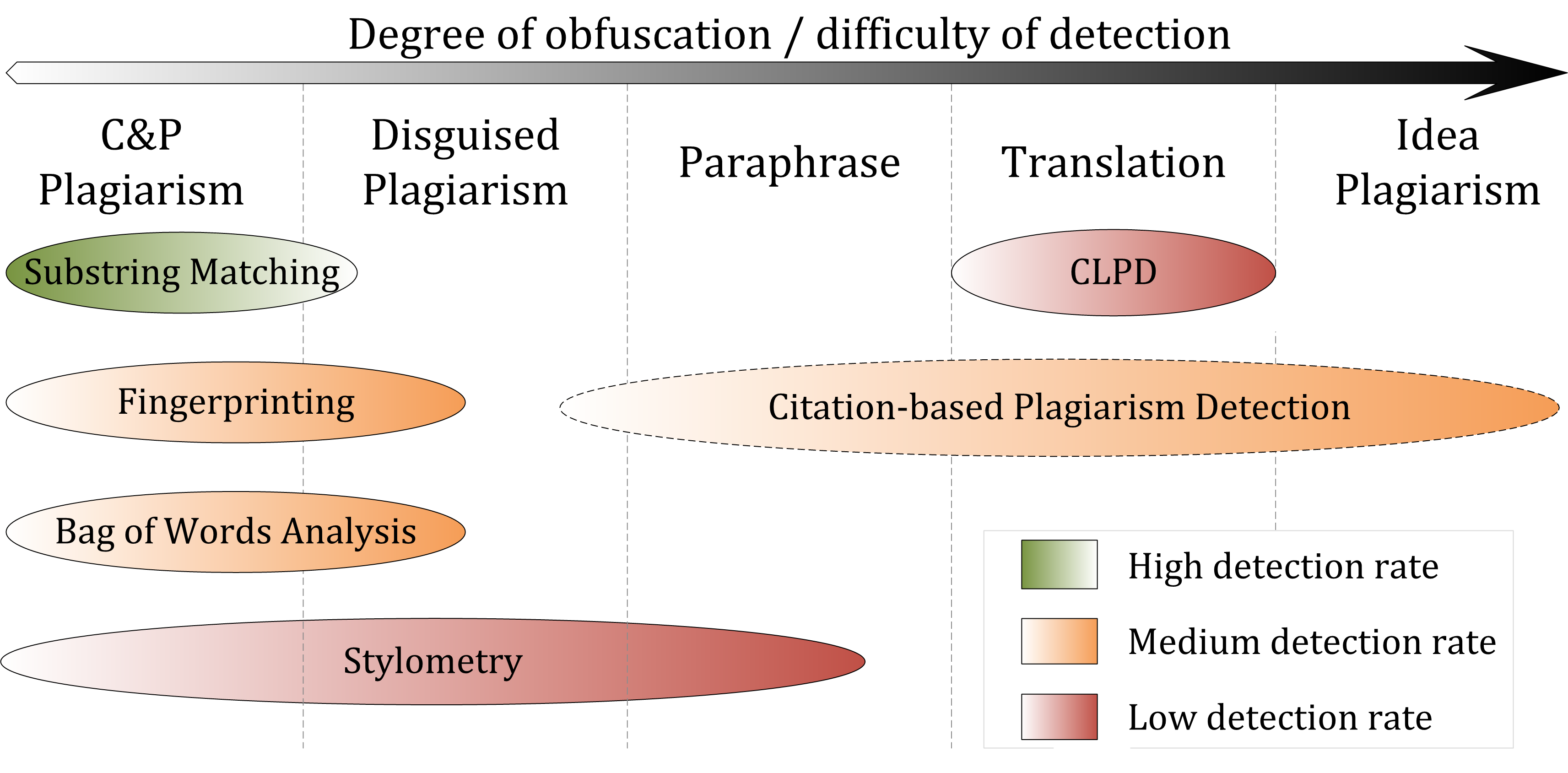 The figure summarizes the suitability of different plagiarism detection approaches depending on the form of plagiarism being present.